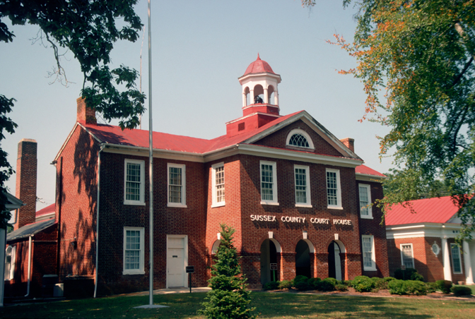 Sussex County Courthouse (Built 1828), Sussex, Virginia This image or file is a work of a United States Department of Agriculture employee, taken or made as part of that person's official duties. As a work of the U.S. federal government, the image is in the public domain. Object location36° 54′ 55″ N, 77° 16′ 47″ W